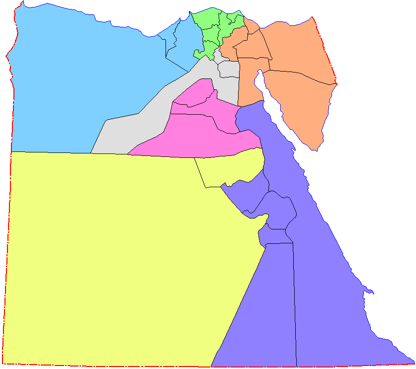 Regions of Arab Republic of Egypt